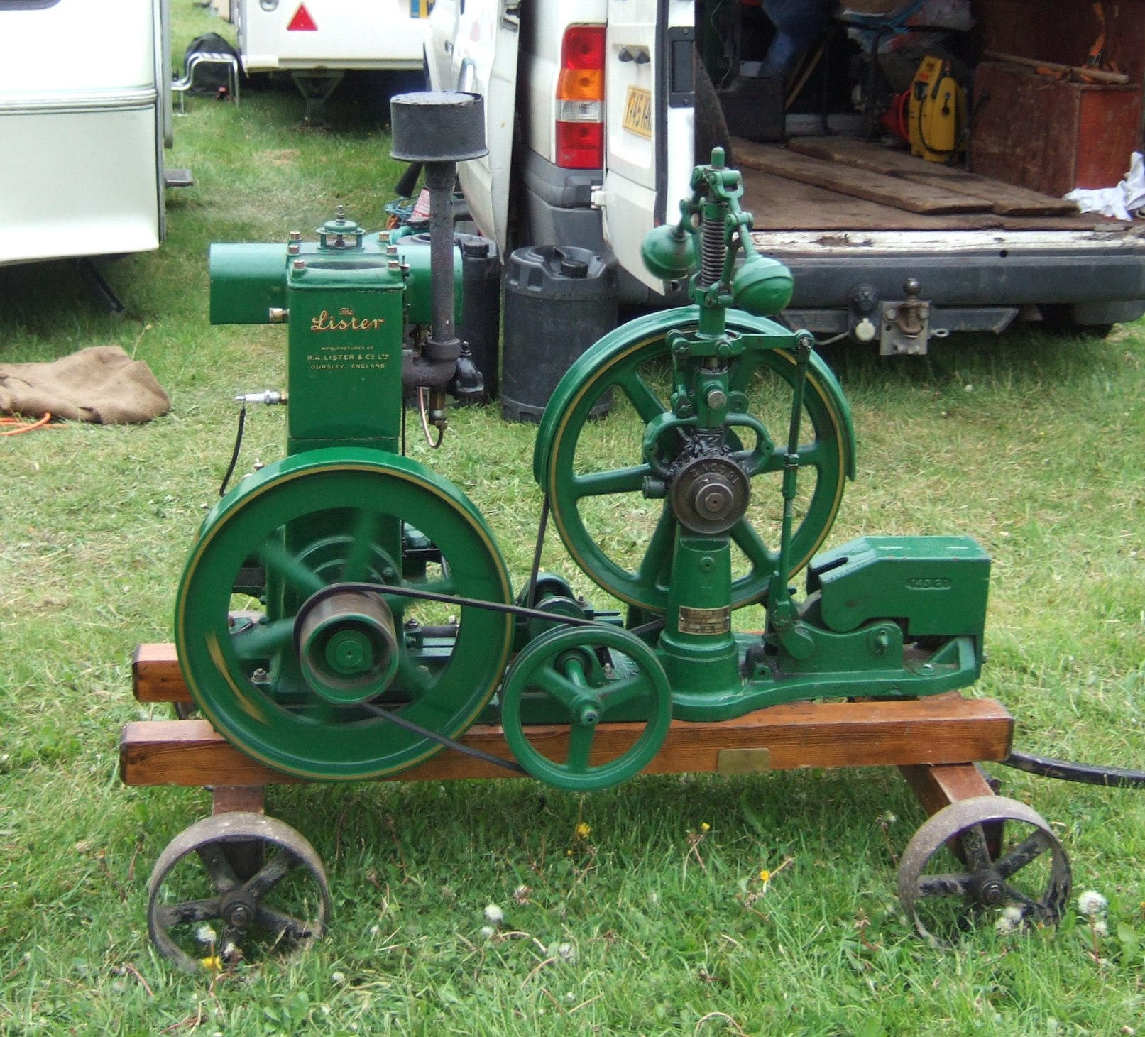 Lister D stationary engine Castle Combe steam rally, 2010.